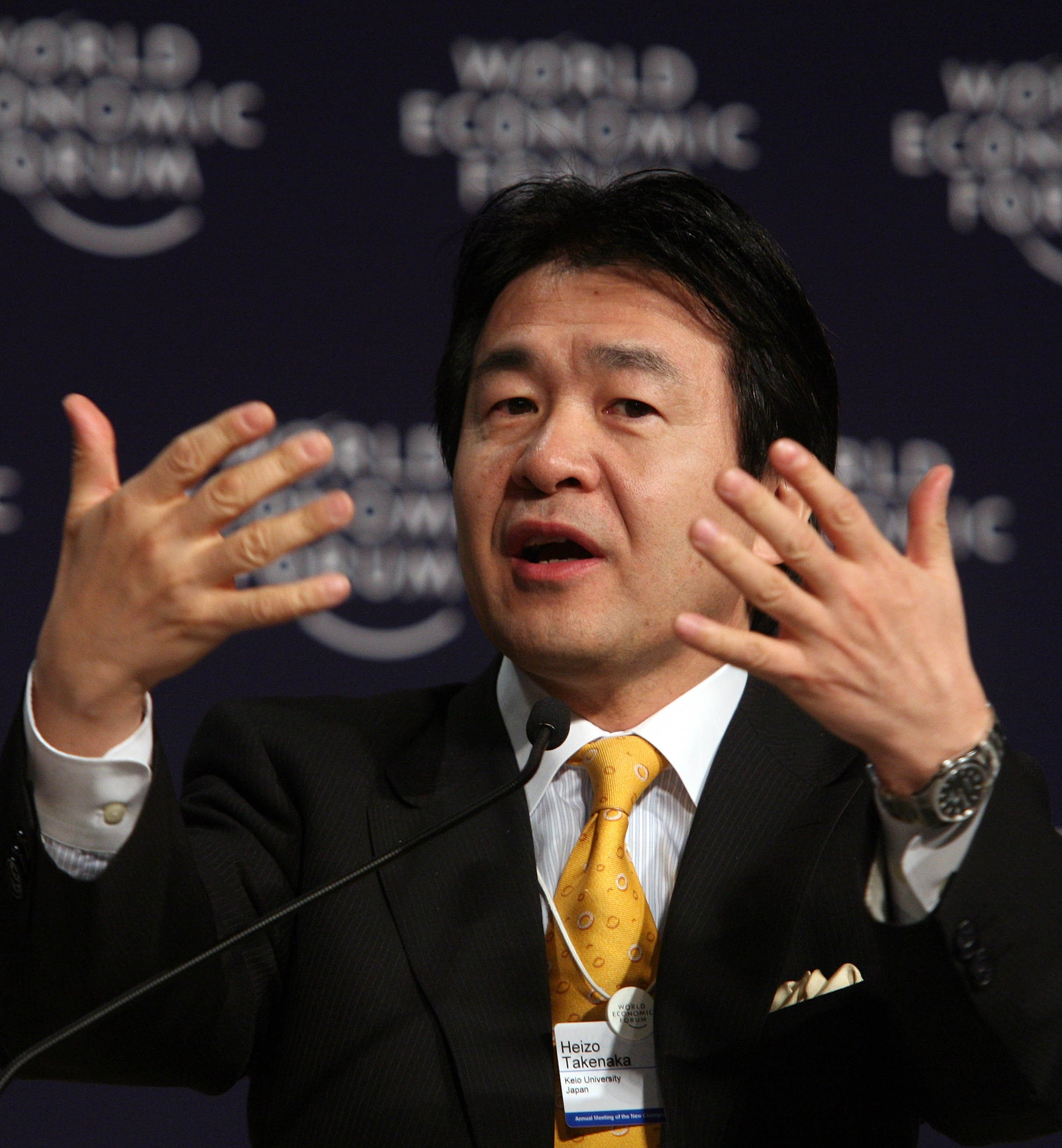 Heizo Takenaka speaks at a plenary session at the World Economic Forum Annual Meeting of the New Champions in Tianjin, China 27 September 2008.